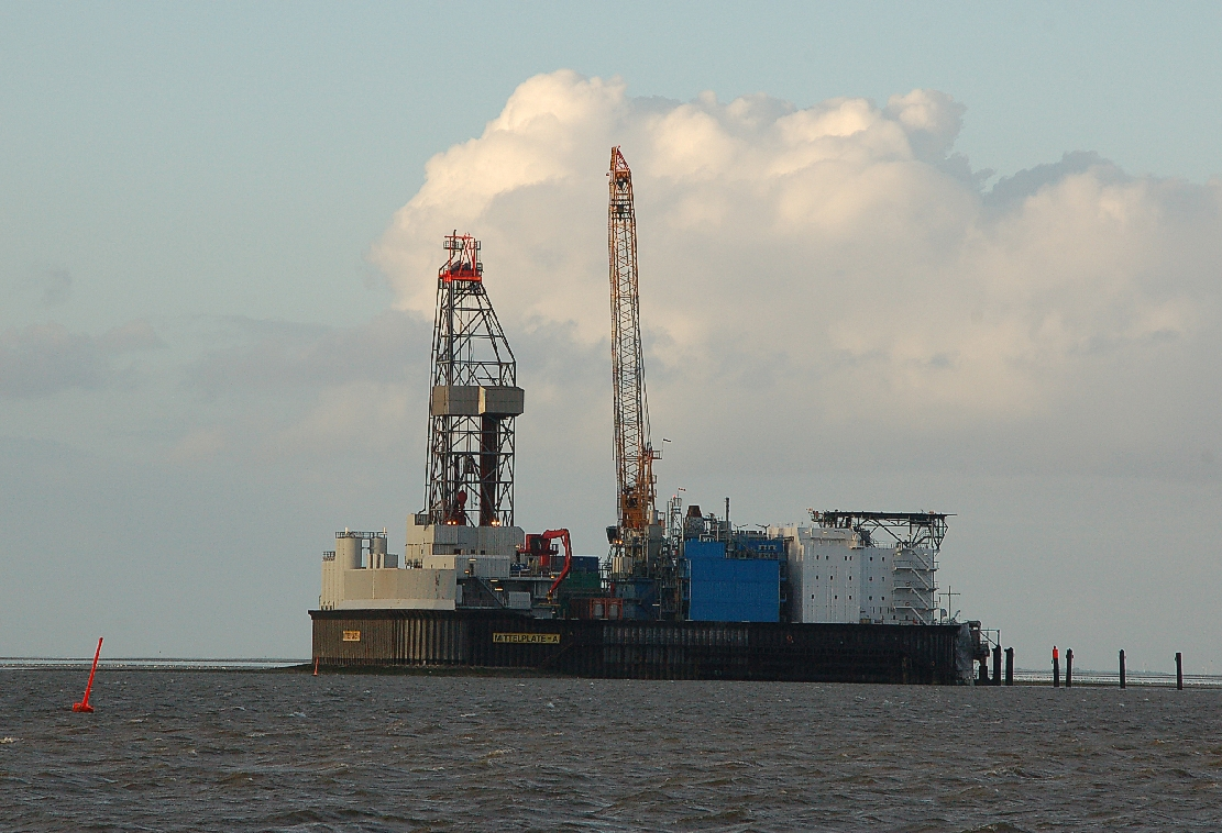 Pictures from Mittelplate